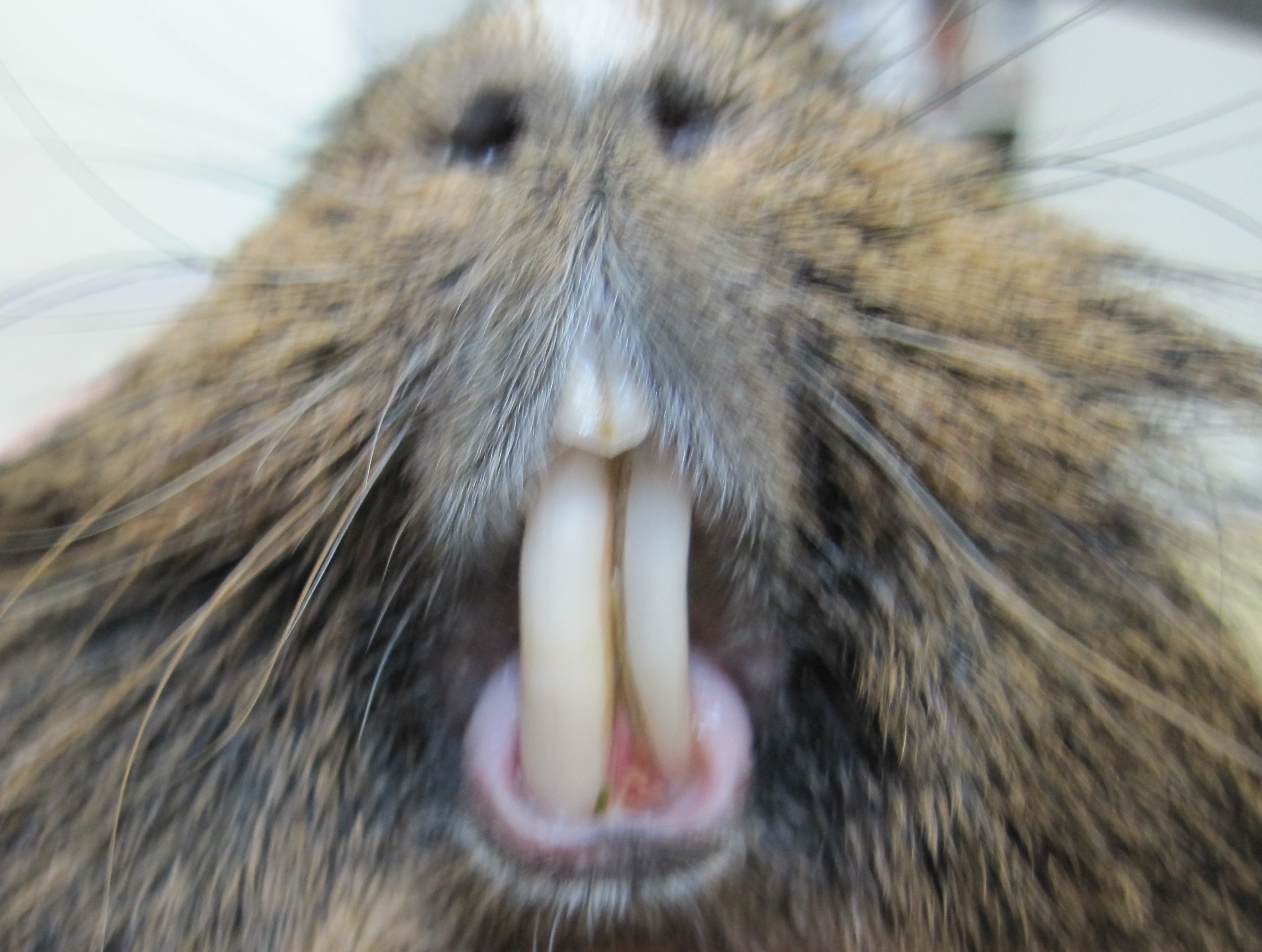 giant tooth (macrodont) in a guinea pig